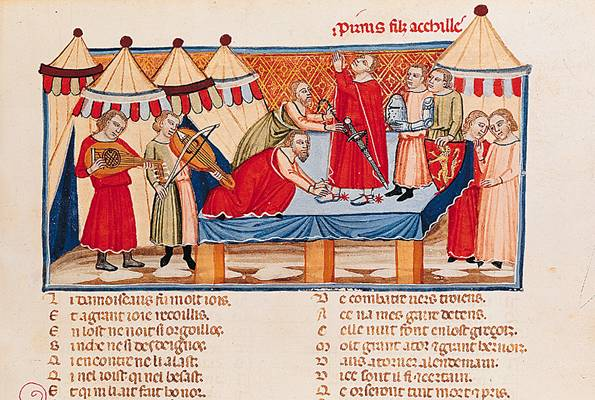 Miniature from Benoît de Sainte-Maure's "Le Roman de Troie".